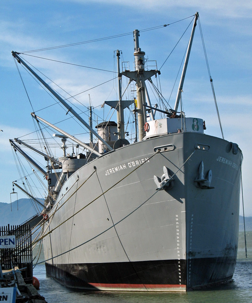 National Register of Historic Places in San Francisco, California. SS "Jeremiah O'Brien", World War II Liberty ship, Pier 45, San Francisco, California, USA. Photographed 2008-03-08 by Mike Hofmann from Pier 45 walkway.